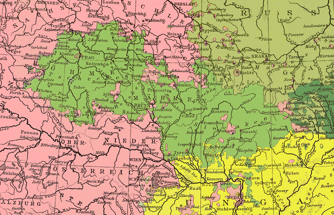 Area of Czech and Slovakian languages in the Austrian monarchy in the 19th century. The meaning of most colours can be understood from the map. The "RUSS…" in the northeast means that the major part of Poland belonged to the Russian empire, the olive colour represents Polish. The dark green in the east are Ruthenians (Ukrainians). The light spots near the border of Germans and Magyars (Hungarians) are Croatians.